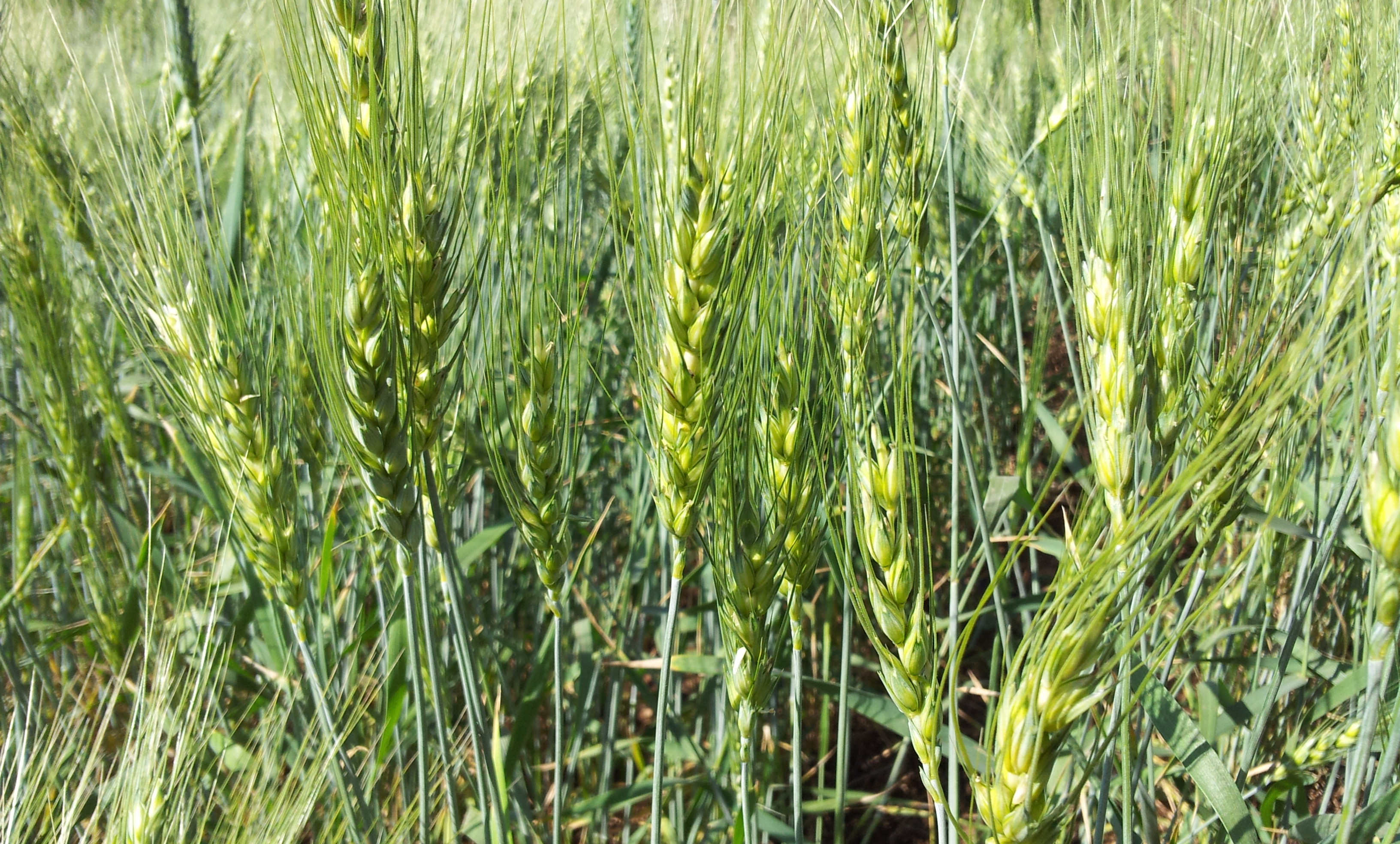 Young Wheat crop in a field near Solapur, Maharashtra, India